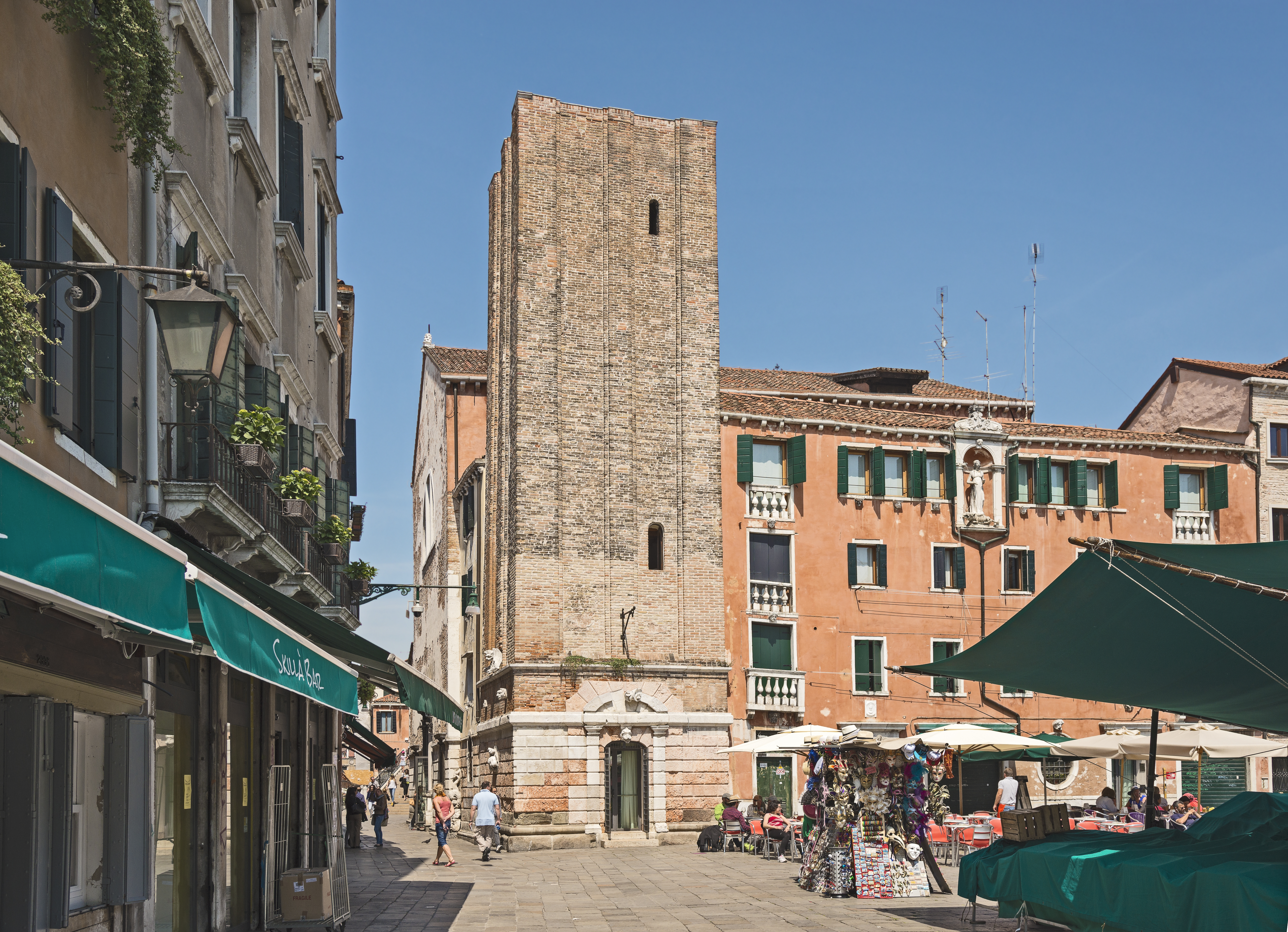 Campanile and church Santa Margherita in Campo Santa Margherita in Venice.